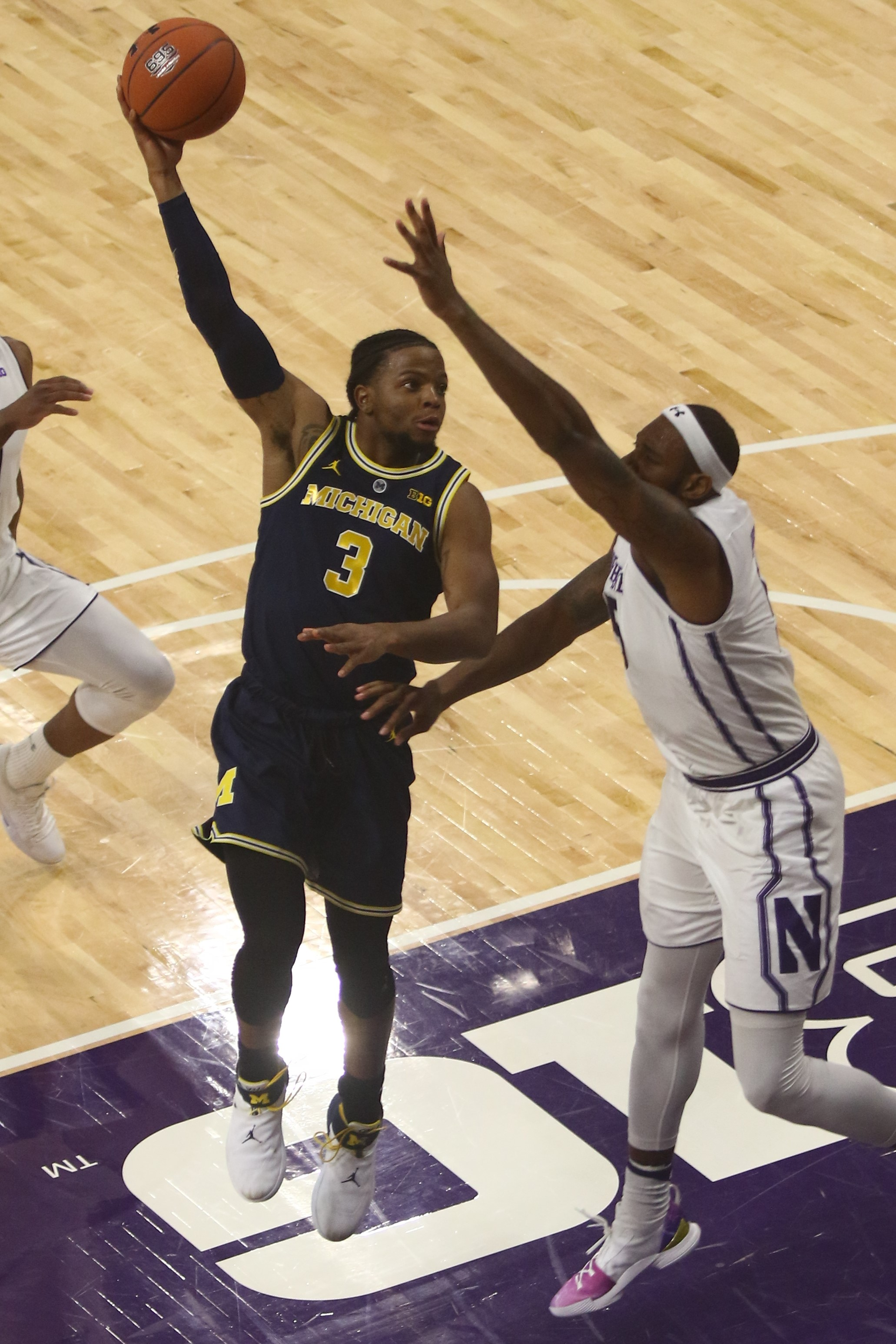 Zavier Simpson for the w:2018–19 Michigan Wolverines men's basketball team at Welsh–Ryan Arena